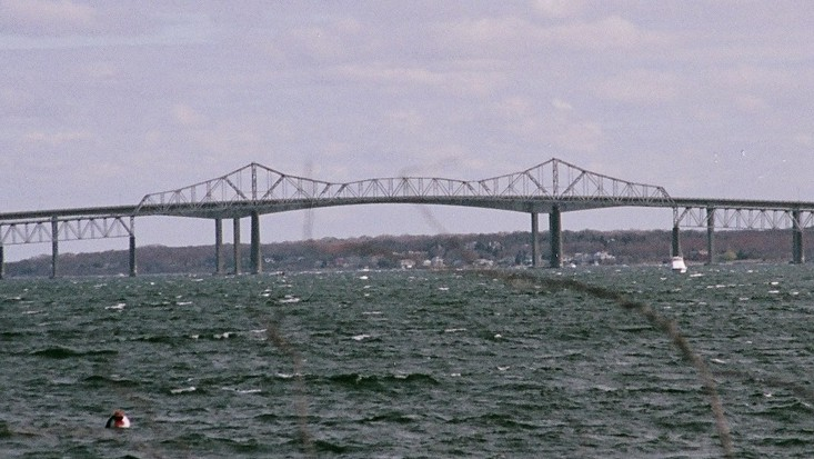 The original Jamestown Bridge in Rhode Island in April 2006, prior to demolition. A reed is in the foreground.